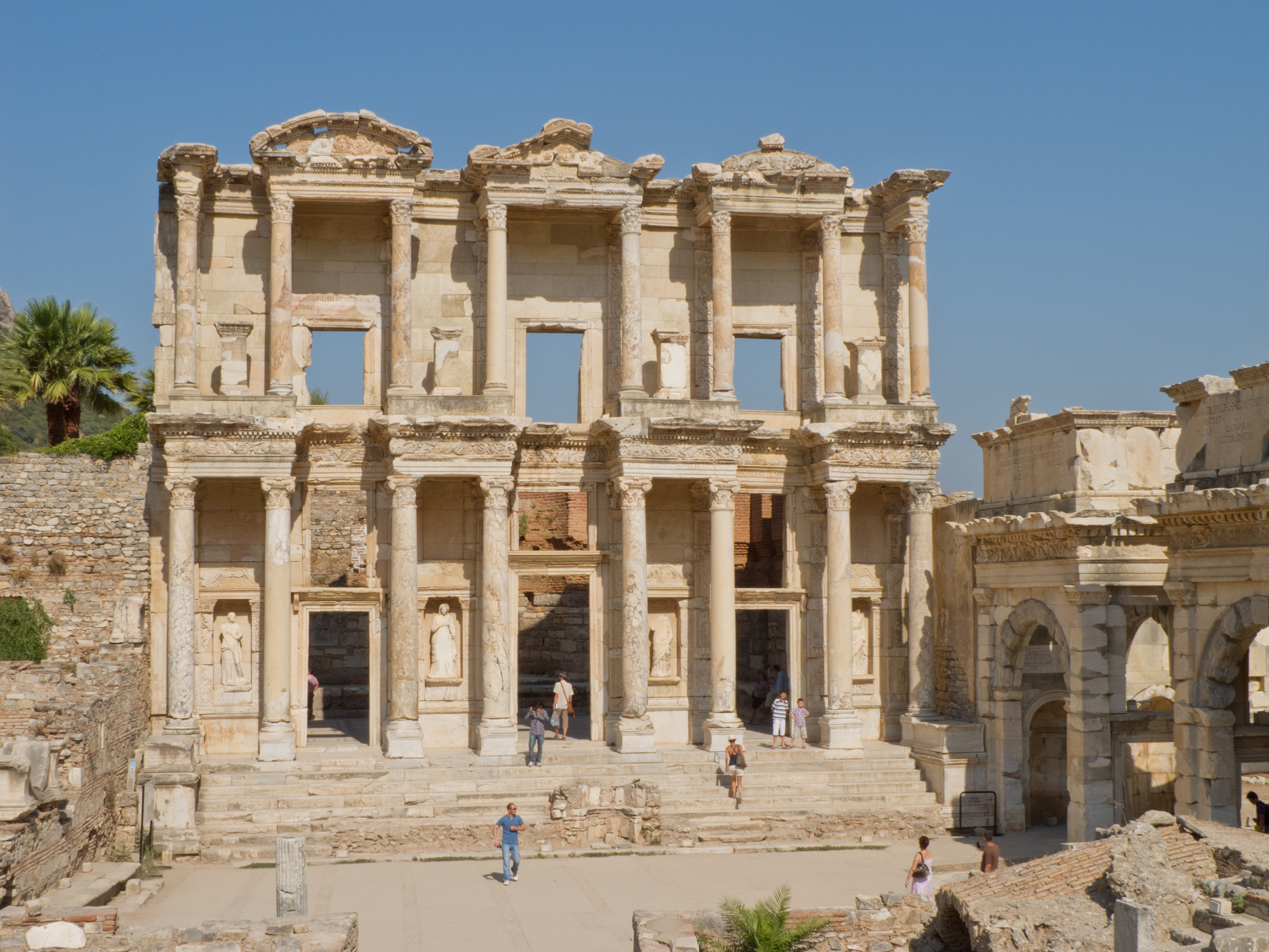 Library of Celsus, Ephesus, in modern-day Turkey.